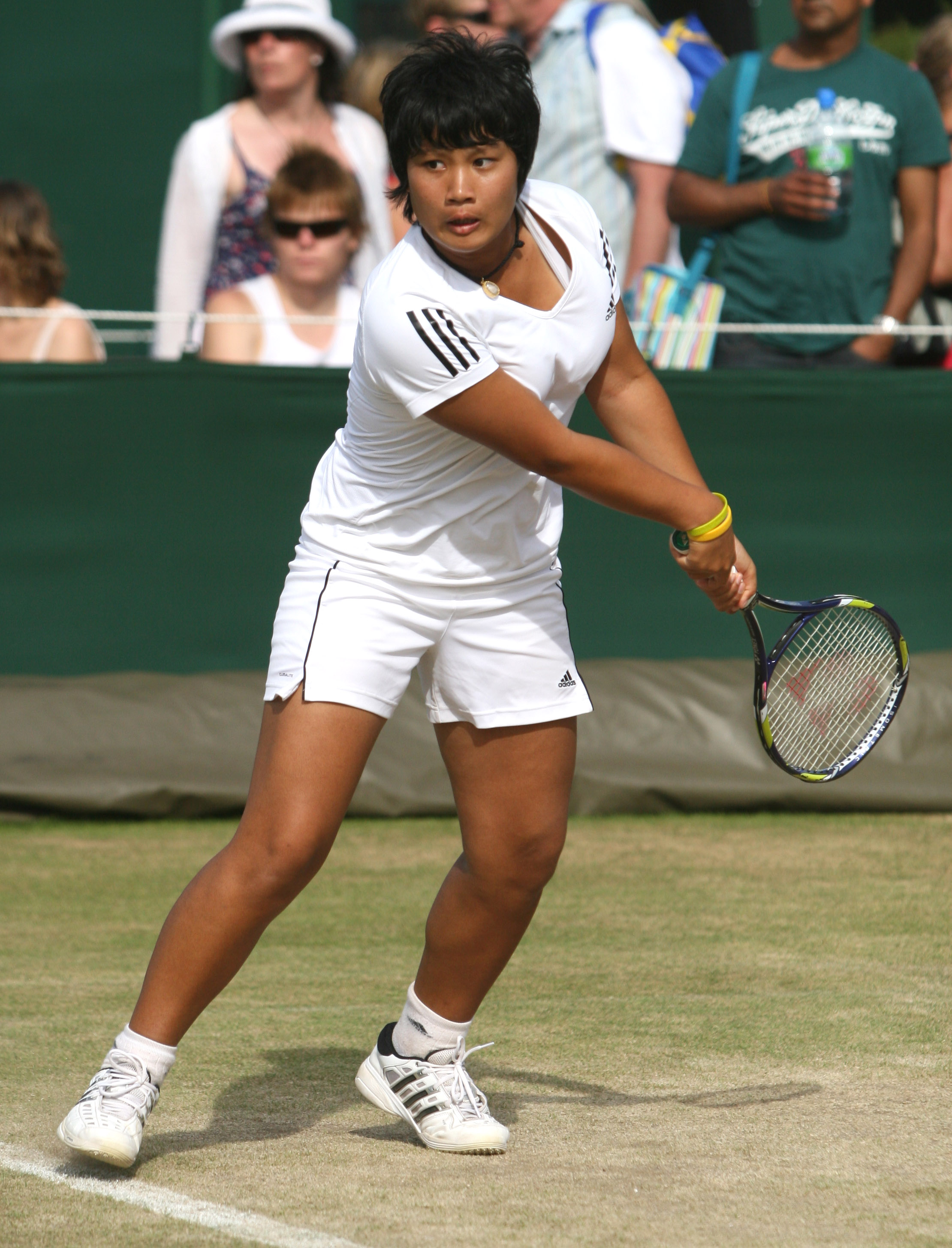 Luksika Kumkhum playing in the first round girls doubles at Wimbledon on 29th June 2010.